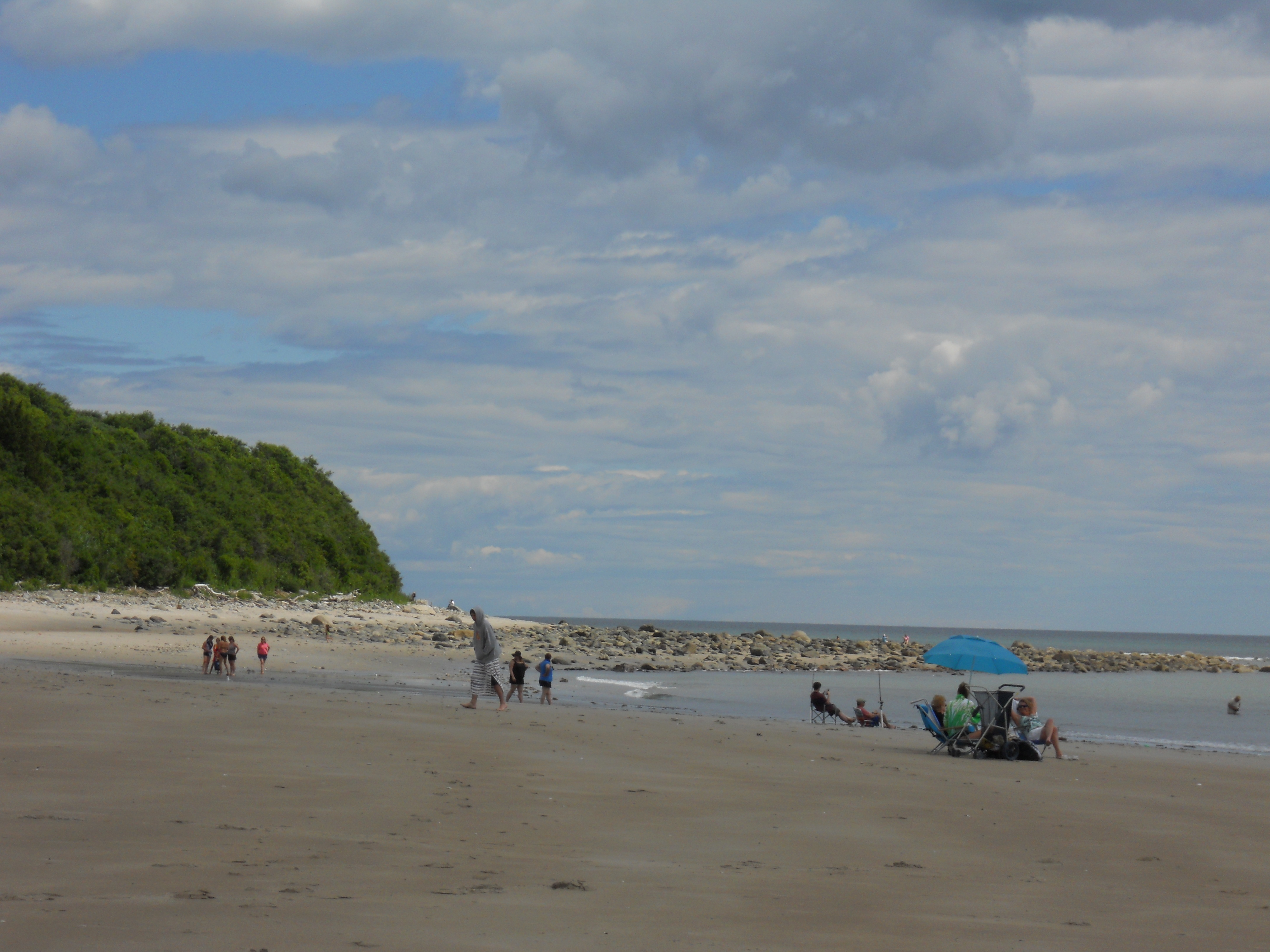 A view of the hill at Sandy Point State Reservation, Ipswich, MA, at low tide.